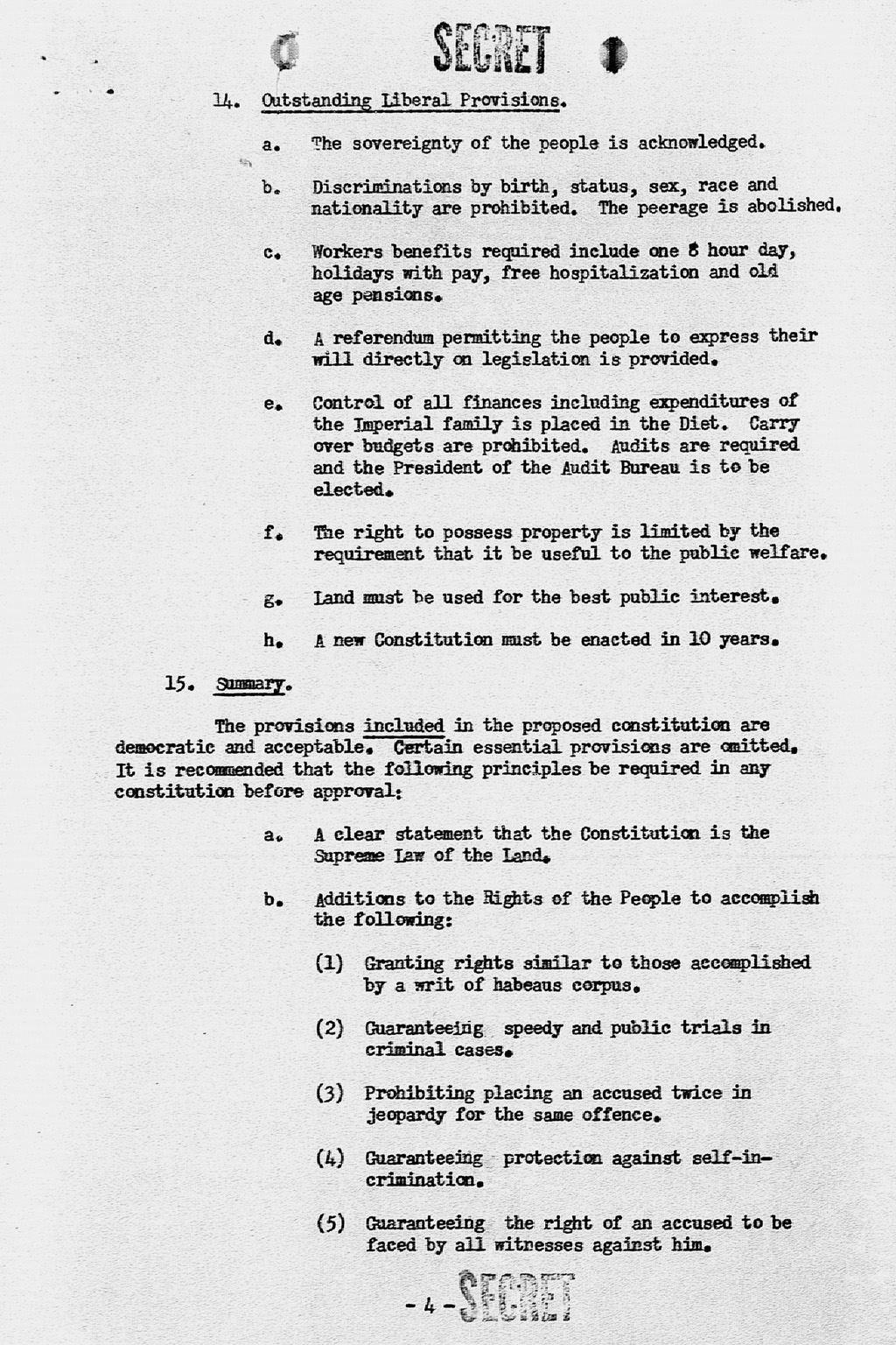 Page 4 of a memorandum from Lt. Col. Milo Rowell to the U.S. Secretary of State.